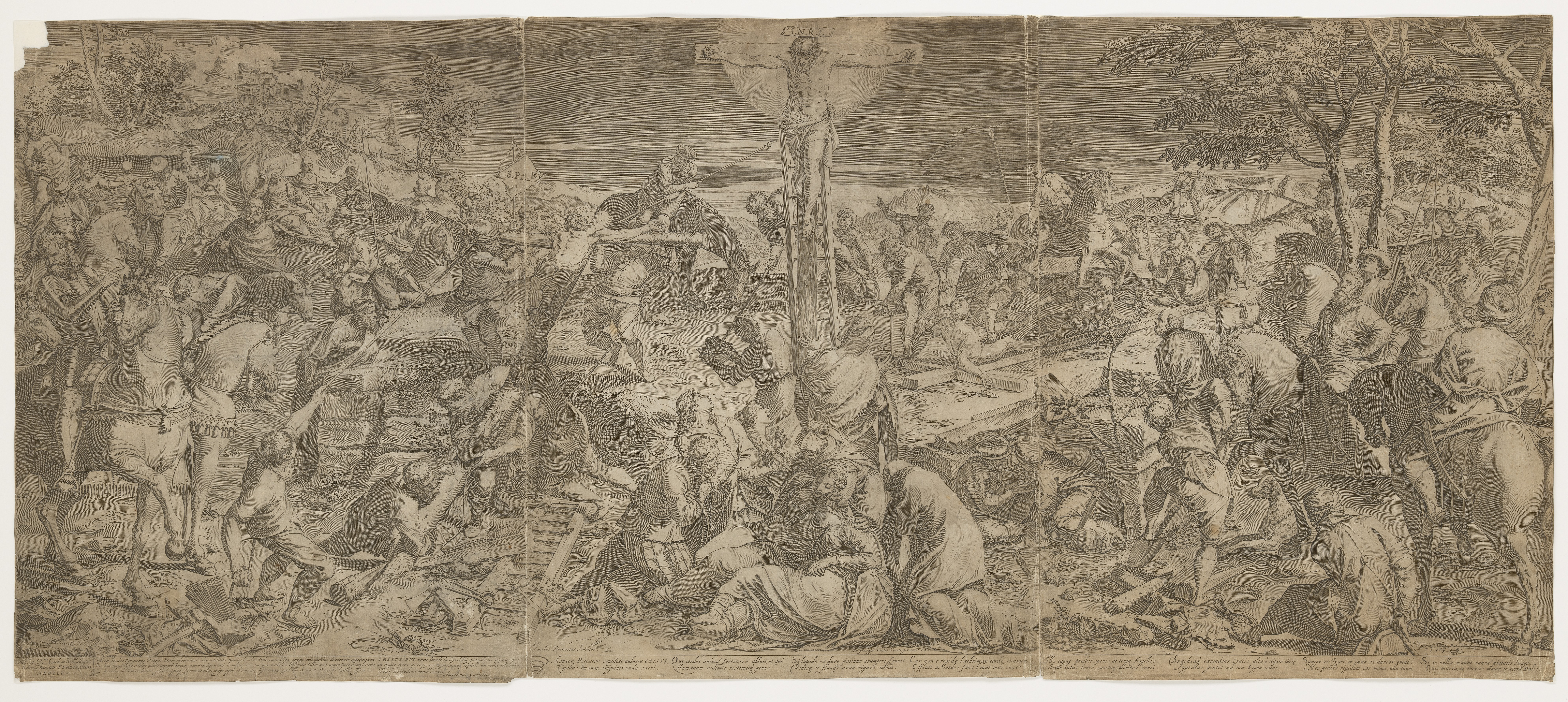 The crucifixion of Christ (known as 'The Great Crucifixion'). Engraving by Agostino Carracci, 1589, after G. Robusti, il Tintoretto On either side of Christ the two criminals are being hoisted up on their crucifixes. Tools and construction materials lie around. The holy women and Saint John the Evangelist lament beneath Christ; the Virgin has fainted. Two soldiers play dice and a man digs nearby Iconographic Collections Keywords: Mary Magdalene,; Agostino Carracci; Jesus Christ.; name; Tintoretto